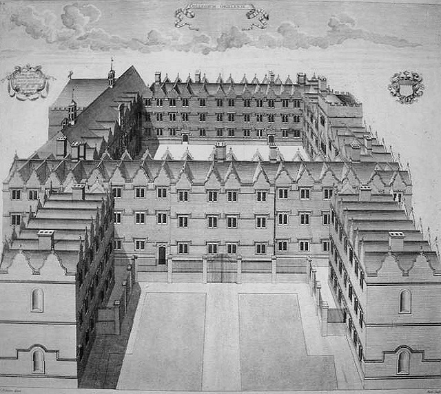 Scan of a 1733 Copper engraving of the First and Second quad of Oriel College, Oxford, by William Williams.